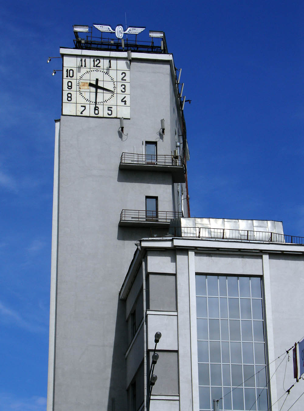 Tank Engine Building, by Ivan Fomin, Moscow, Reg Gates Square